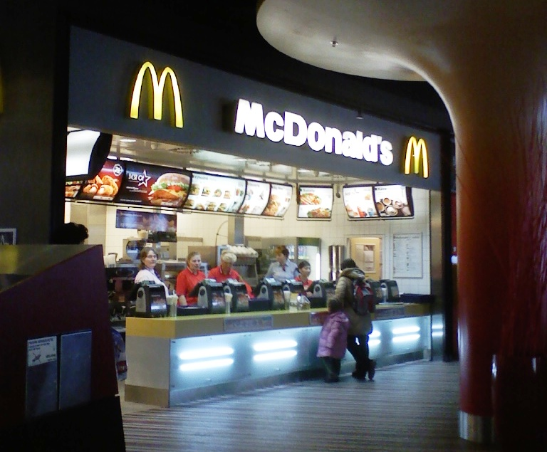 McDonald´s store - Prague, Chodov Shopping center